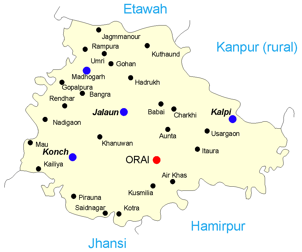 Map of the Jalaun district of India. I recreated this in CorelDRAW – the original was in IFC and had no information on its source. I hope I can license this under GFDL though it's derived from :Image:Map-jalaun.gif. Legend: ● Town ● Tehsil ● District headquarters sarnam pal orai Raghvendra prajapati gingaura (jalaun)